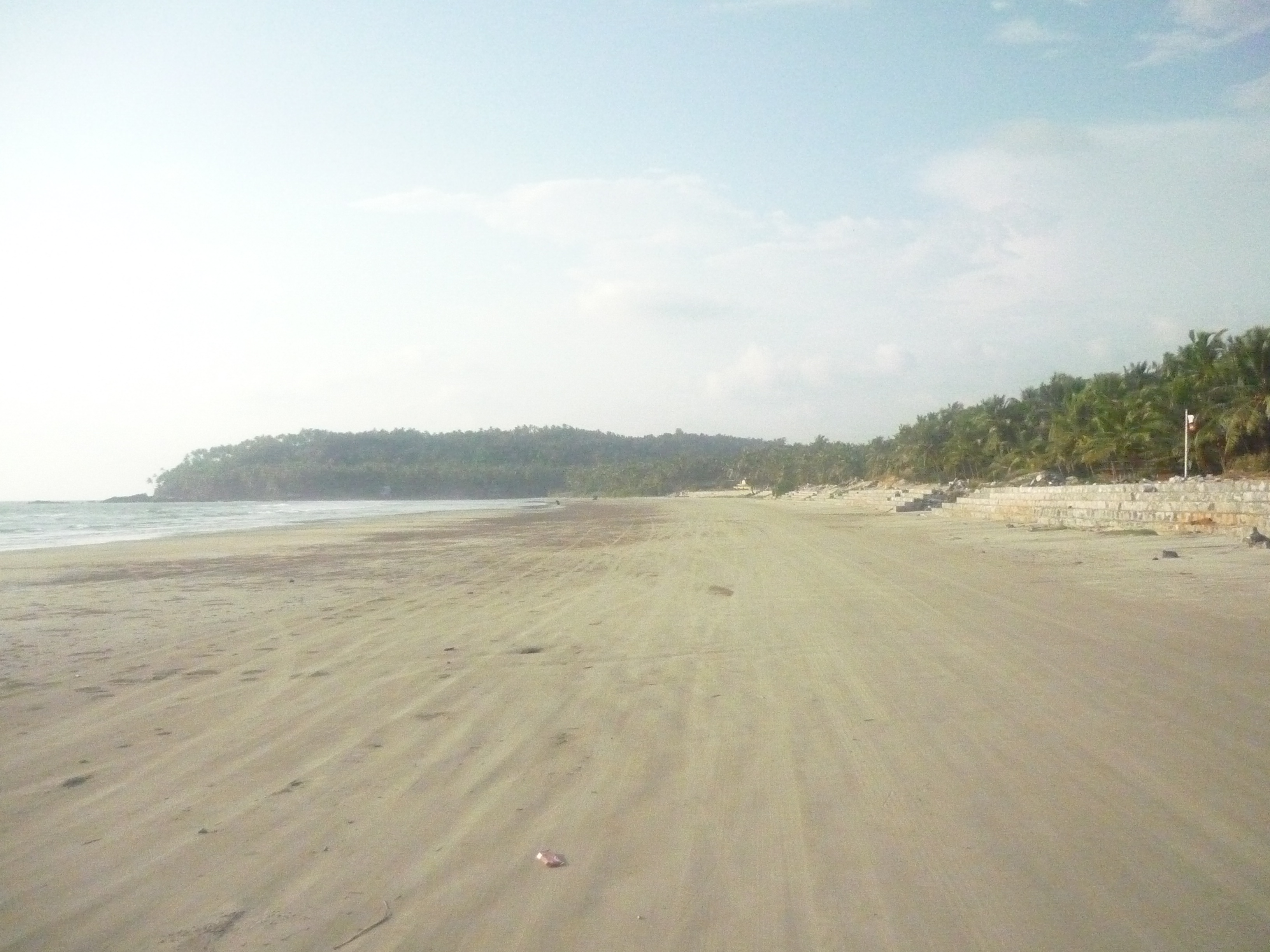 Image